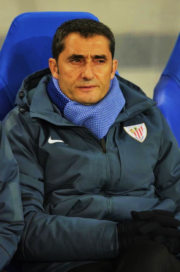 Ernesto Valverde